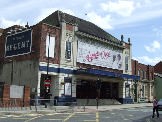 Ipswich Regent The Ipswich Regent St.Helens Street Ipswich Suffolk for the history of the building